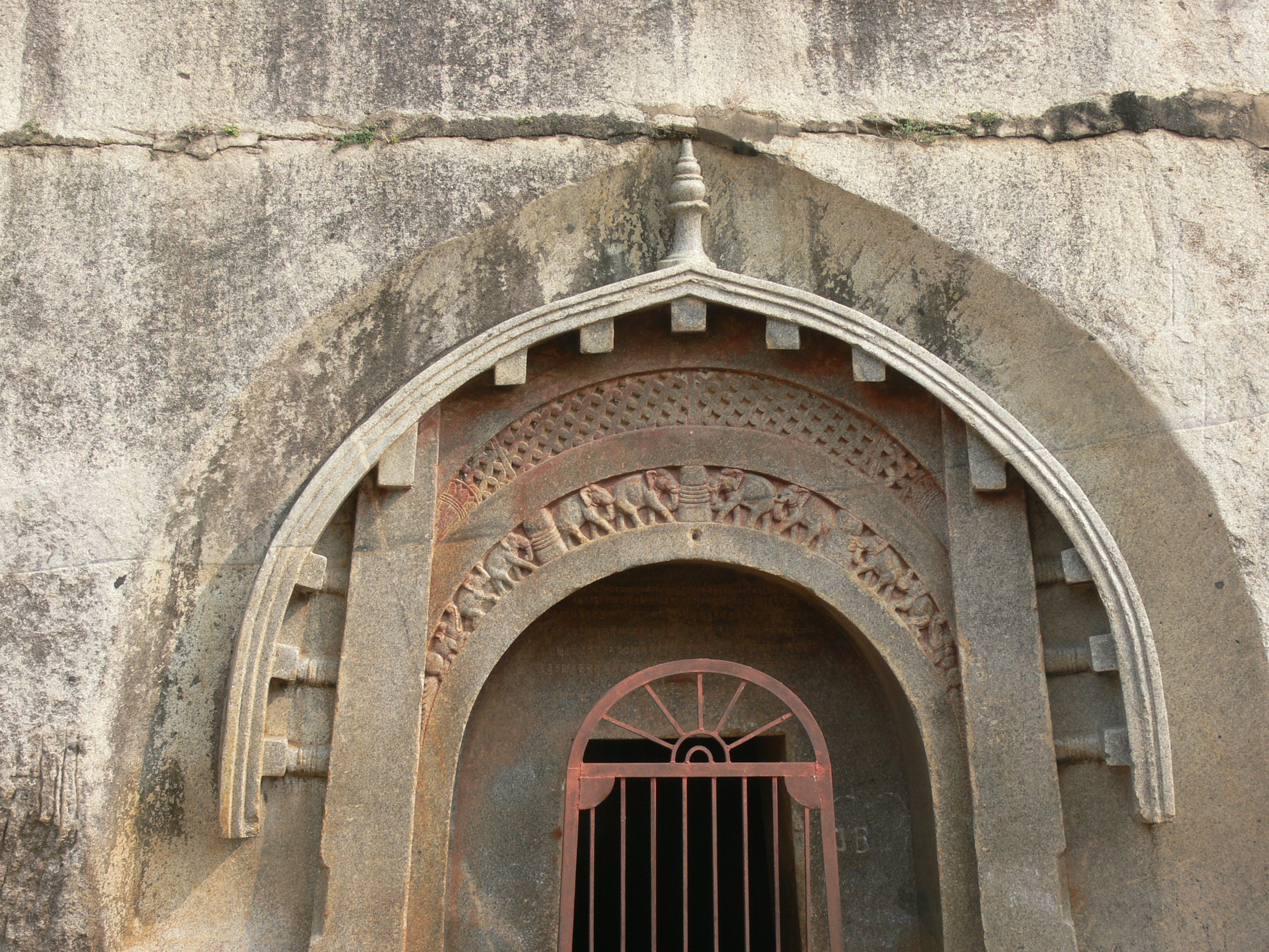 Barabar: Façade of Lomas Rishi Cave, Bihar (India)